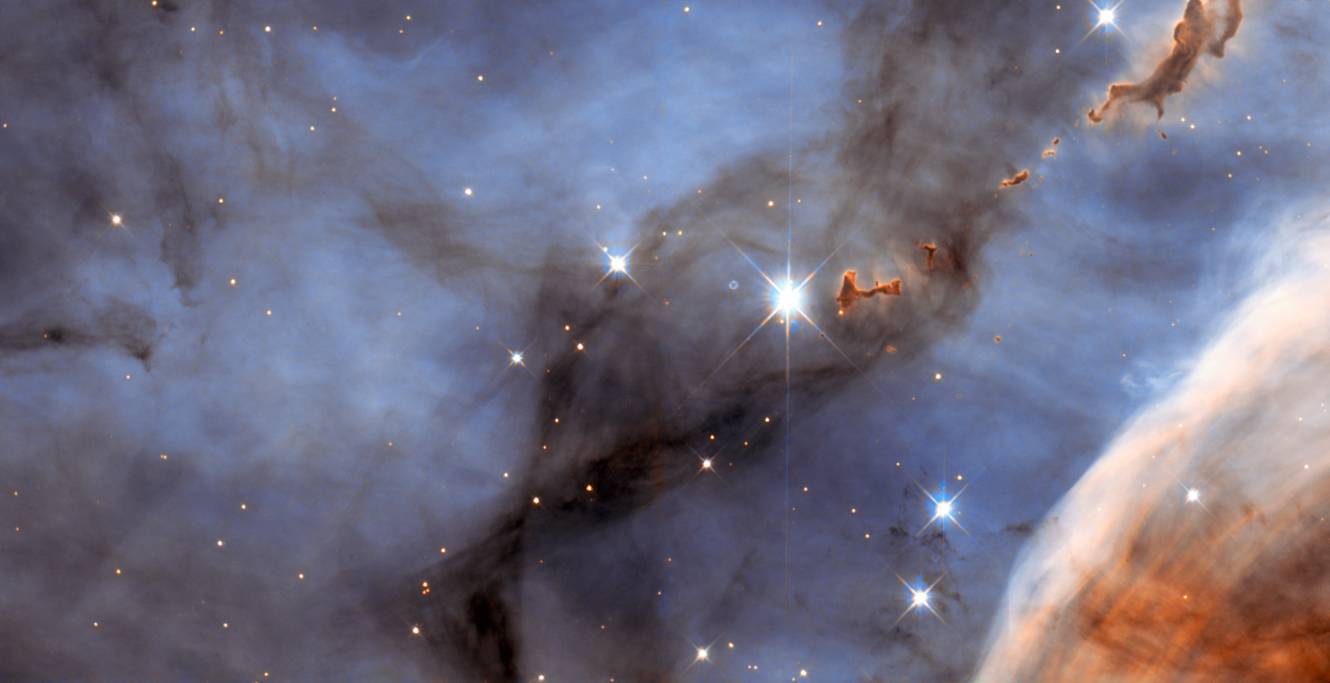 Looking like an elegant abstract art piece painted by talented hands, this picture is actually a NASA/ESA Hubble Space Telescope image of a small section of the Carina Nebula. Part of this huge nebula was documented in the well-known Mystic Mountain picture (heic1007a) and this picture takes an even closer look at another piece of this bizarre astronomical landscape (heic0707a). The Carina Nebula itself is a star-forming region about 7500 light-years from Earth in the southern constellation of Carina (The Keel: part of Jason’s ship the Argo). Infant stars blaze with a ferocity so severe that the radiation emitted carves away at the surrounding gas, sculpting it into strange structures. The dust clumps towards the upper right of the image, looking like ink dropped into milk, were formed in this way. It has been suggested that they are cocoons for newly forming stars. The Carina Nebula is mostly made from hydrogen, but there are other elements present, such as oxygen and sulphur. This provides evidence that the nebula is at least partly formed from the remnants of earlier generations of stars where most elements heavier than helium were synthesised. The brightest stars in the image are not actually part of the Carina Nebula. They are much closer to us, essentially being the foreground to the Carina Nebula’s background. This picture was created from images taken with Hubble’s Wide Field Planetary Camera 2. Images through a blue filter (F450W) were coloured blue and images through a yellow/orange filter (F606W) were coloured red. The field of view is 2.4 by 1.3 arcminutes.